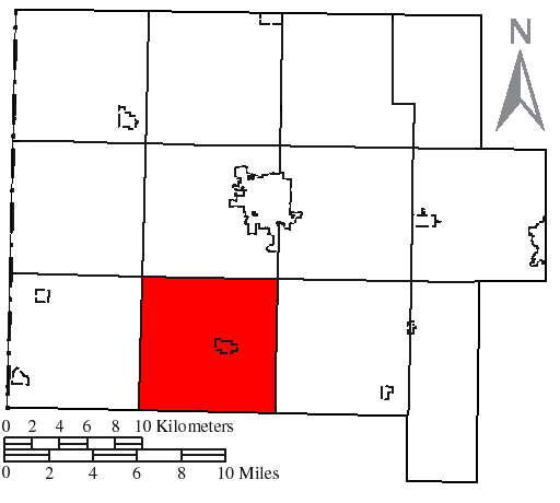 Made by the US Census and modified by myself